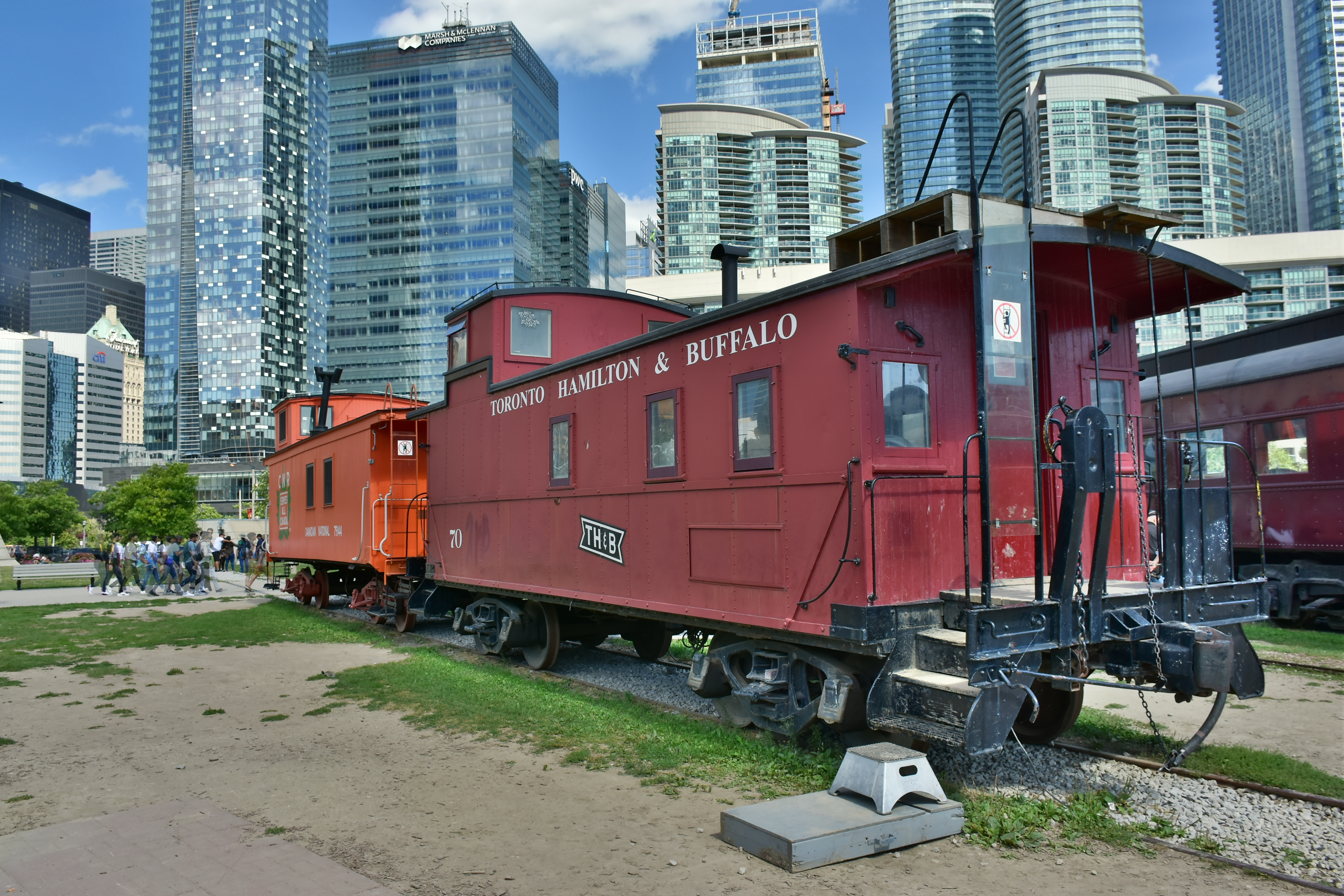 A preserved caboose car on exhibit at the Toronto Railway Historical Association.